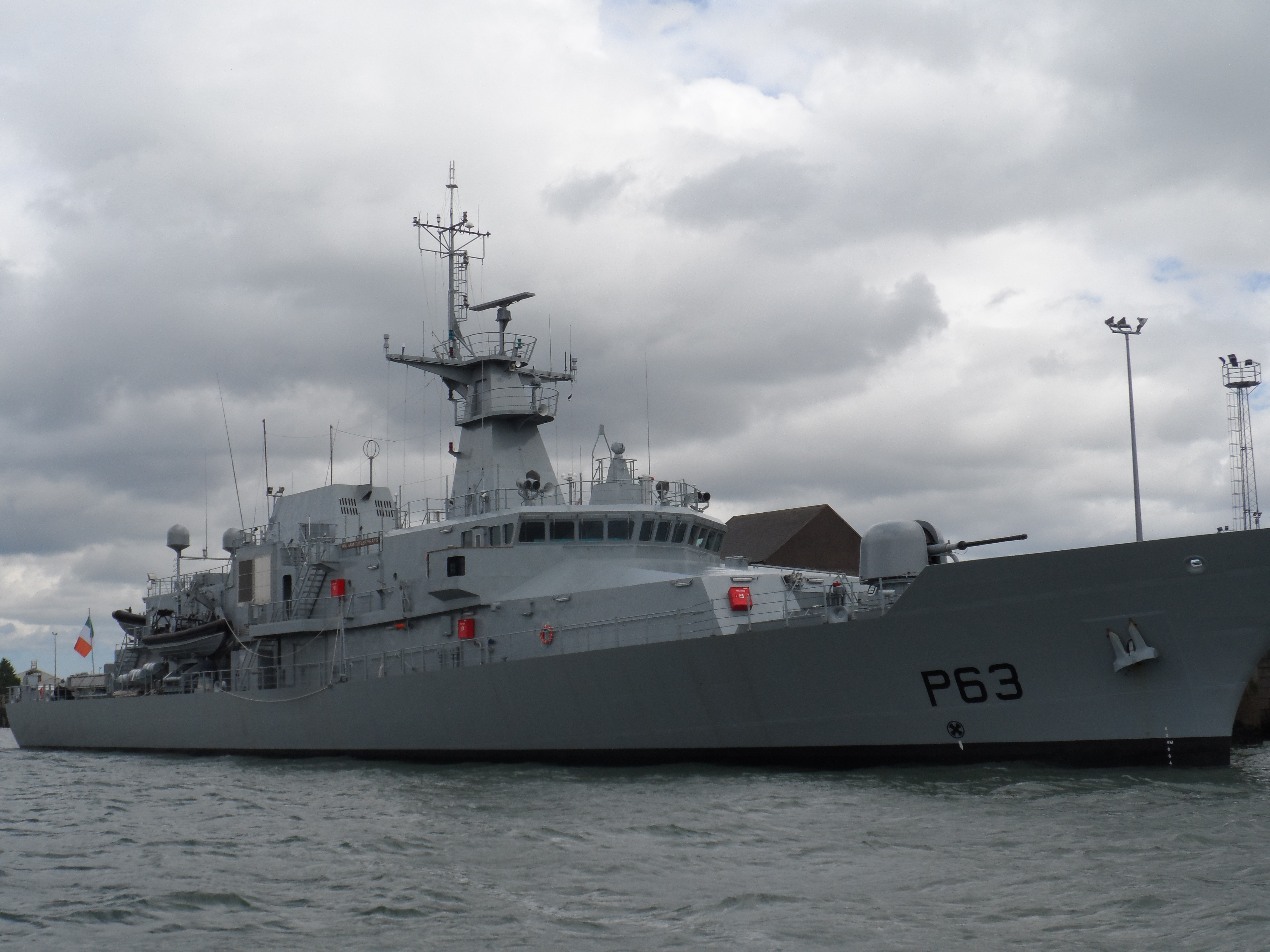 LÉ William Butler Yeats in Cobh harbour